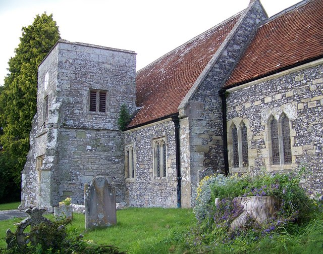 The Church of St John the Baptist, Burcombe The church stands well away from the main part of the village.